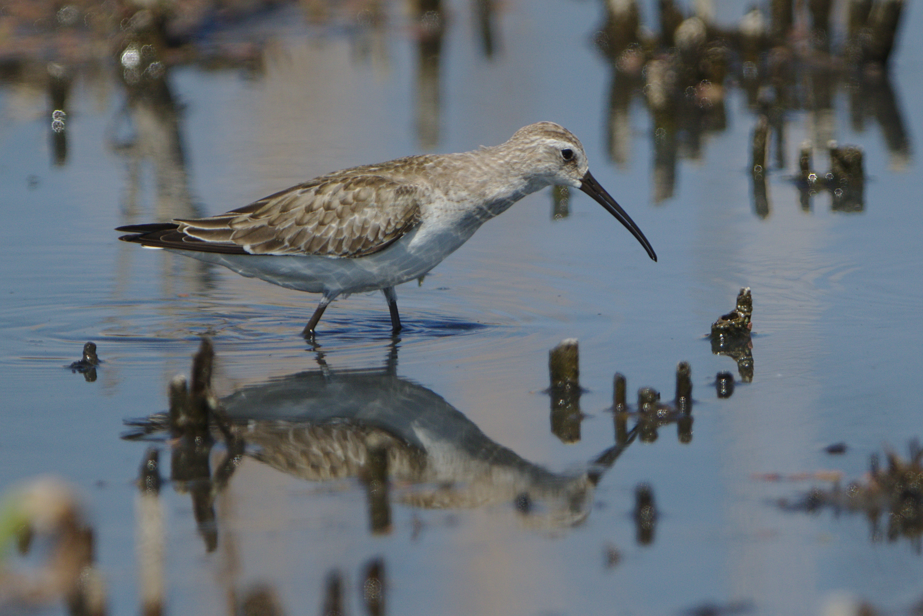 Curlew sandpiper, Calidris ferruginea, at Marievale Nature Reserve, Gauteng, South Africa